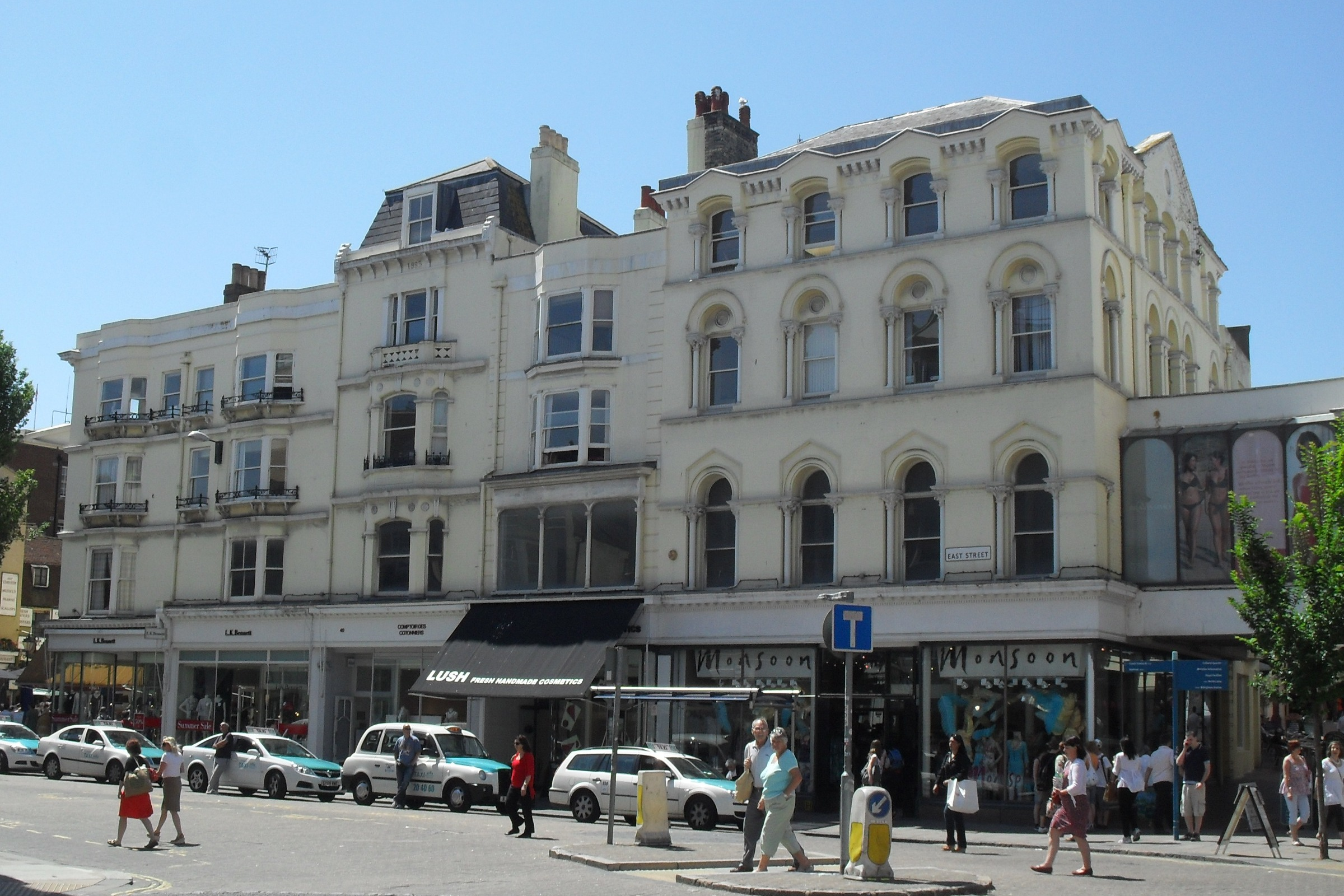 Former Hanningtons Department Store, East Street, Brighton, City of Brighton and Hove, East Sussex. Built in about 1866 by Henry Jarvis. Continued as a department store until 2001. Listed at Grade II by English Heritage (IoE Code 480663). This section is 38–42 East Street.